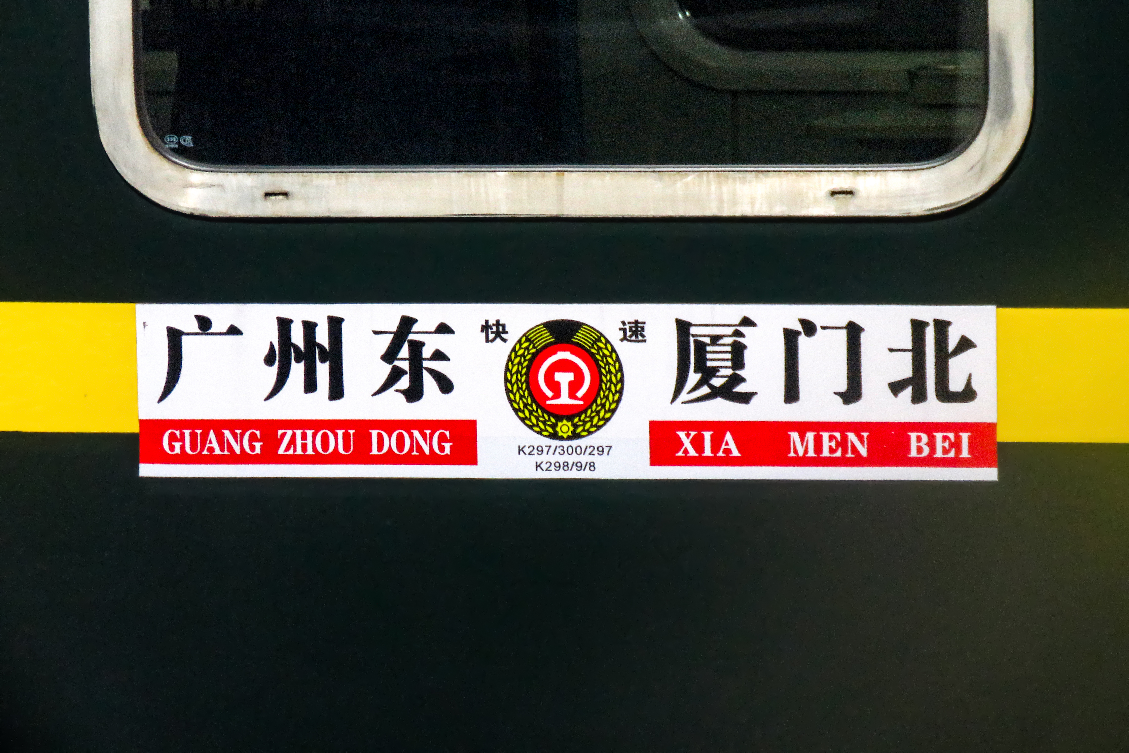 Taken from Z24 during the stopover at Guangzhoudong.